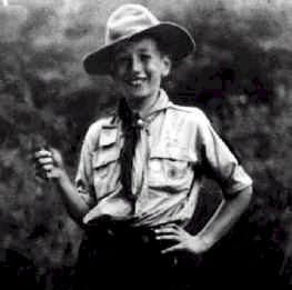 Photo of Wilco Jiskoot, Scout of the Mango Kwane Group who died as a resistance fighter during the second world war.